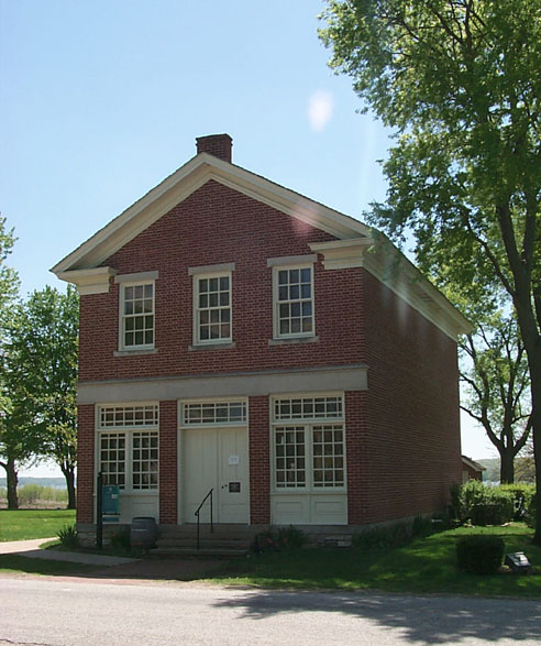 Red Brick Store, original photo by John Hamer